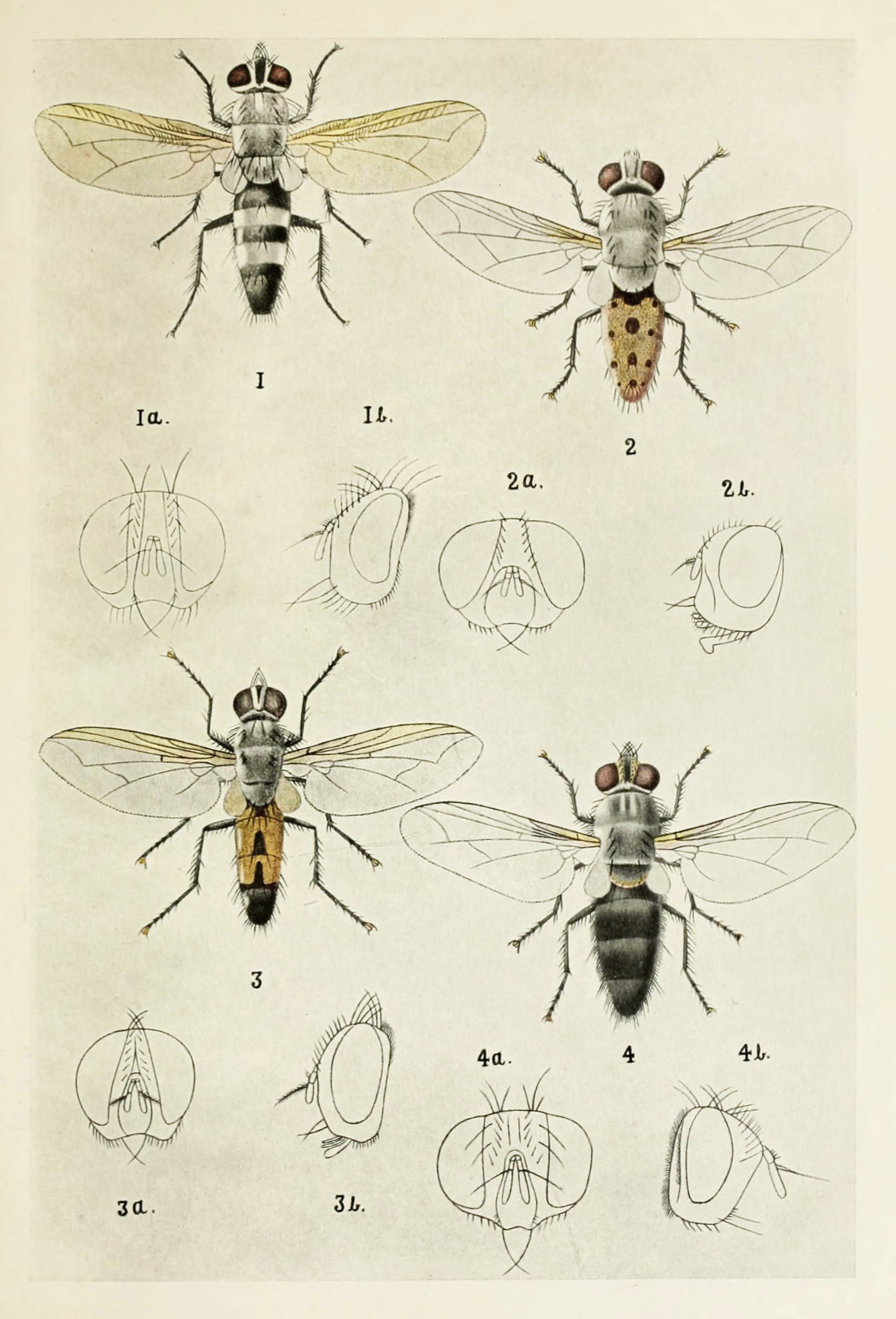 Picture from book Indian Insect Life: a Manual of the Insects of the Plains by Harold Maxwell-Lefroy.